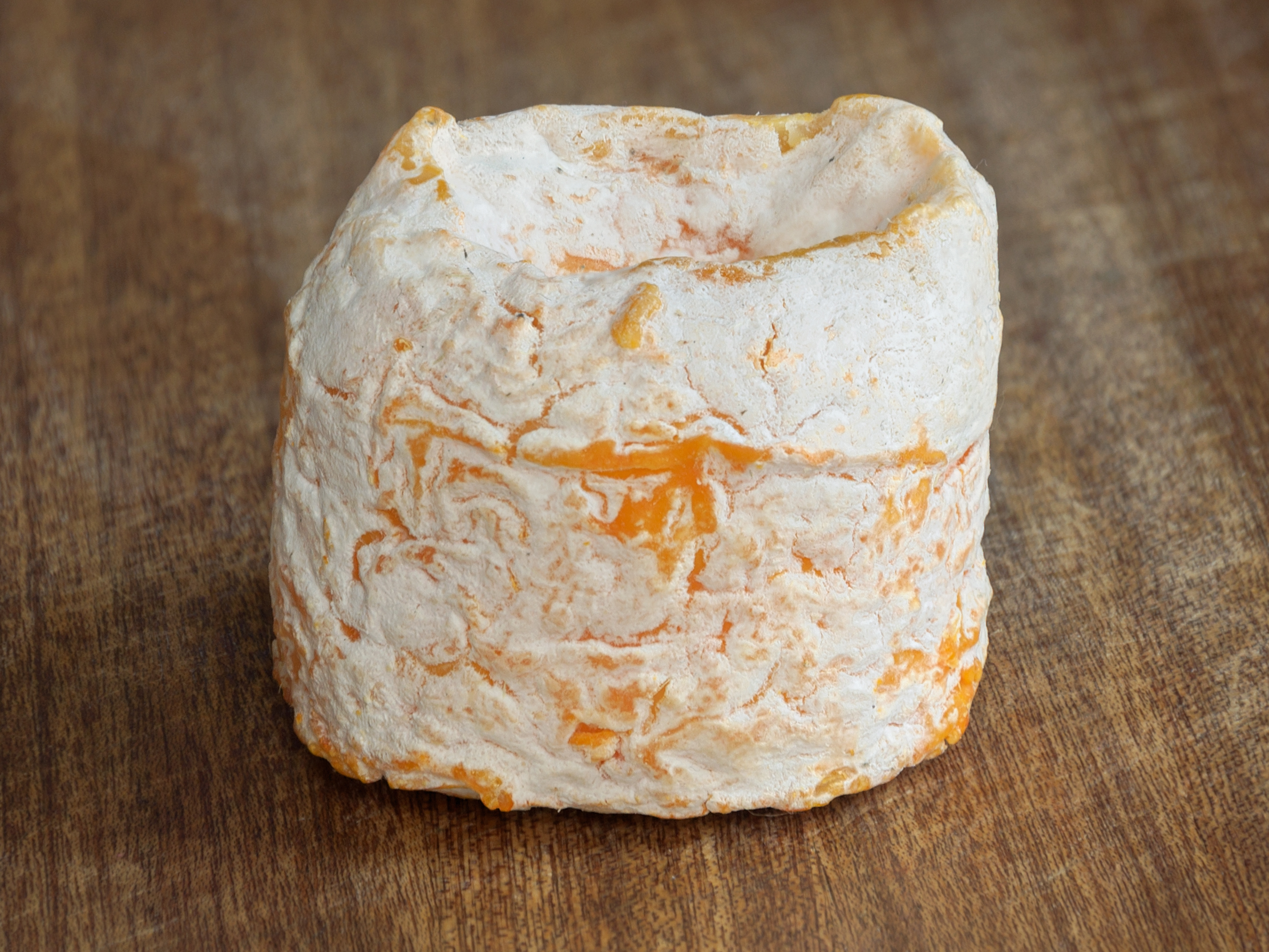 Langres cheese is a French cheese from the region of Champagne-Ardenne, labelled Protected Designation of Origin (PDO).